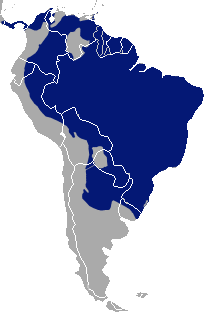 Crab-eating Raccoon (Procyon cancrivorus) range